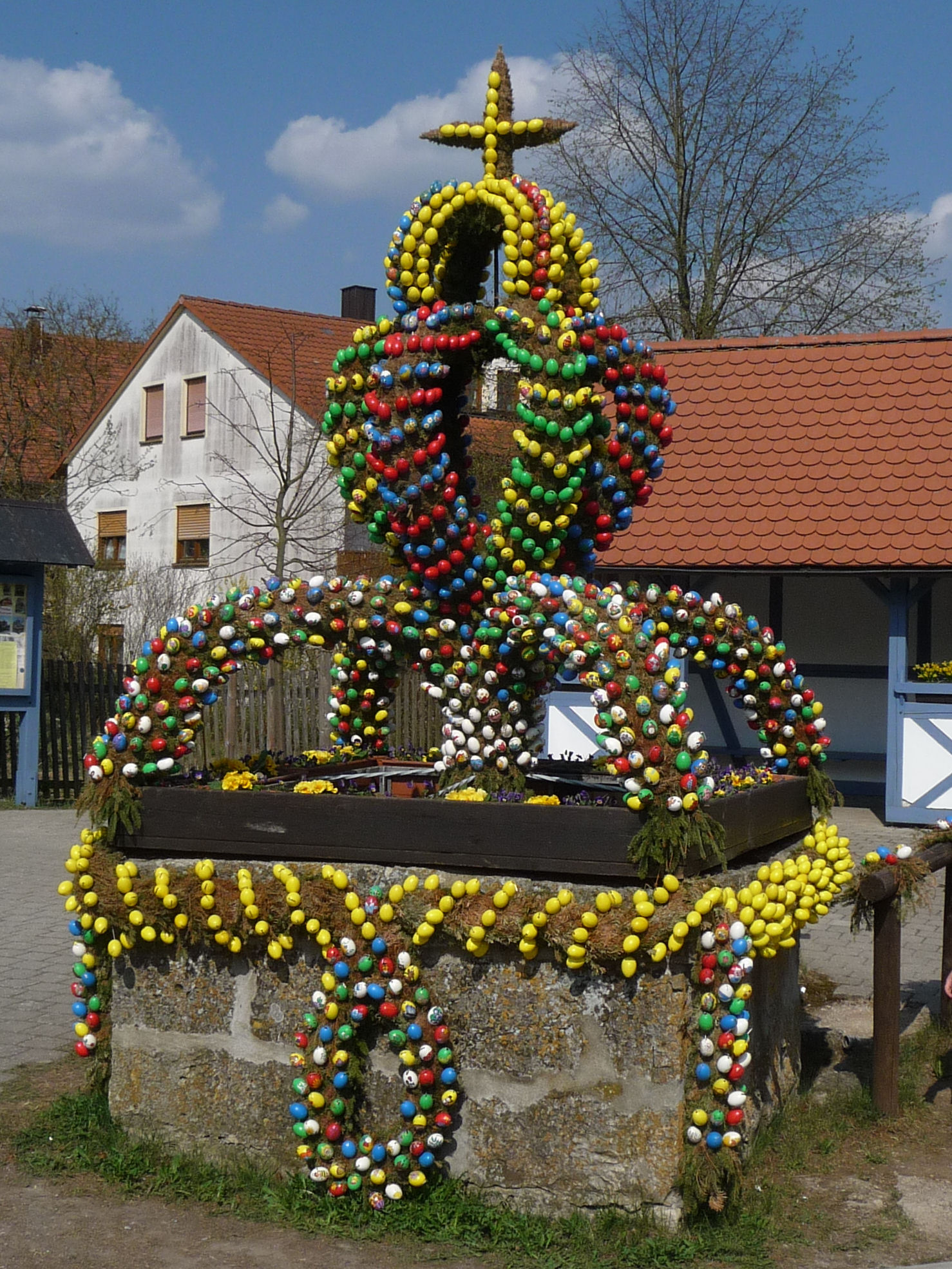 Teuchatz in Landkreis Bamberg, Germany